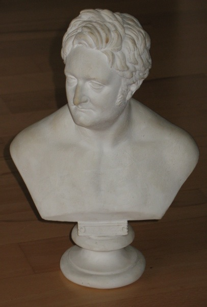 Heinrich Meyer (1767–1828), German physician, bust by Karl Wichmann, 1806 in Berlin, private property